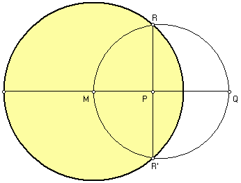 Construction of inversion